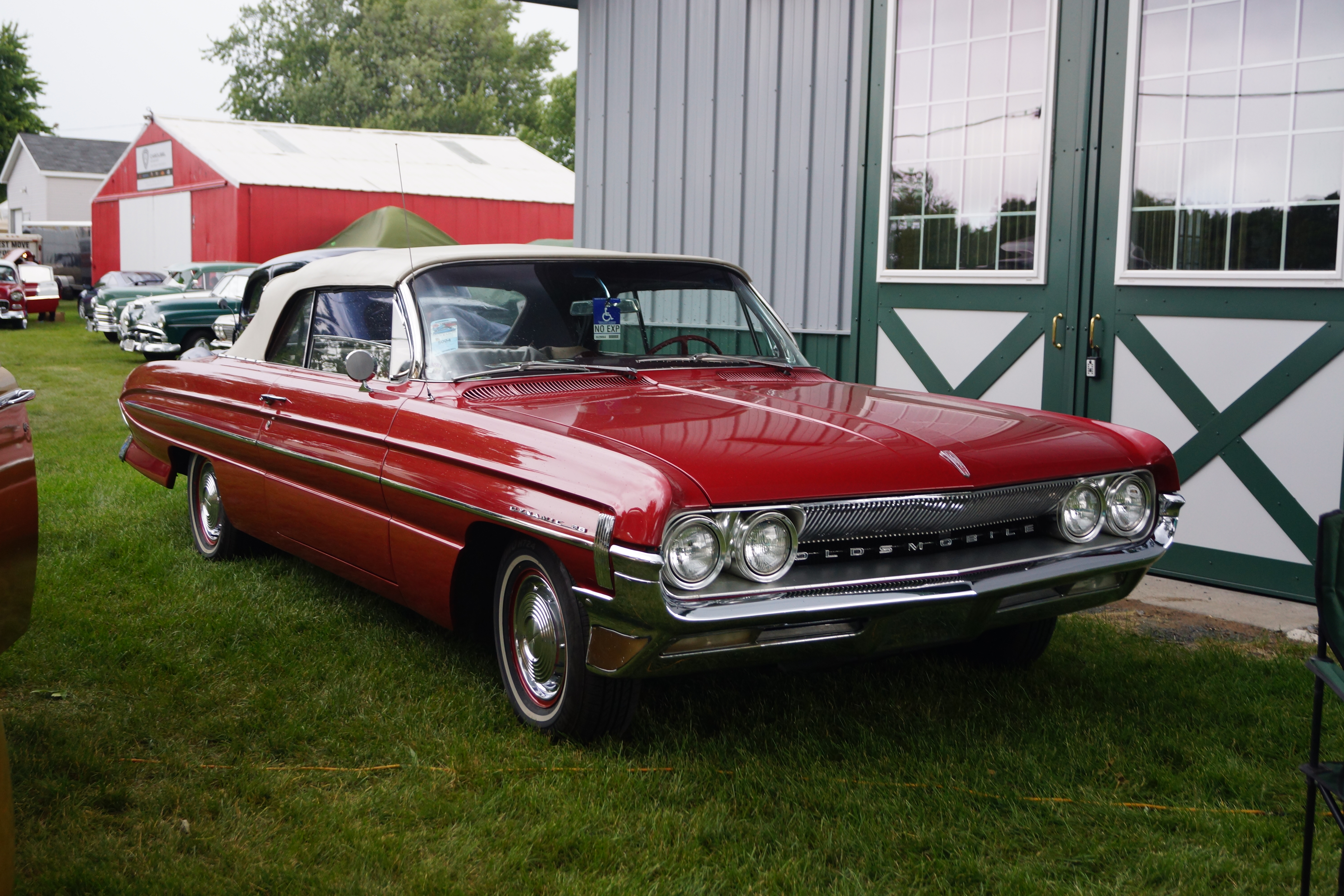 Minnesota Street Rod Association (MSRA) “BACK TO THE 50′s” 44th Annual Car Show June 23-25, 2017 Minnesota State Fairgrounds St. Paul Minnesota.